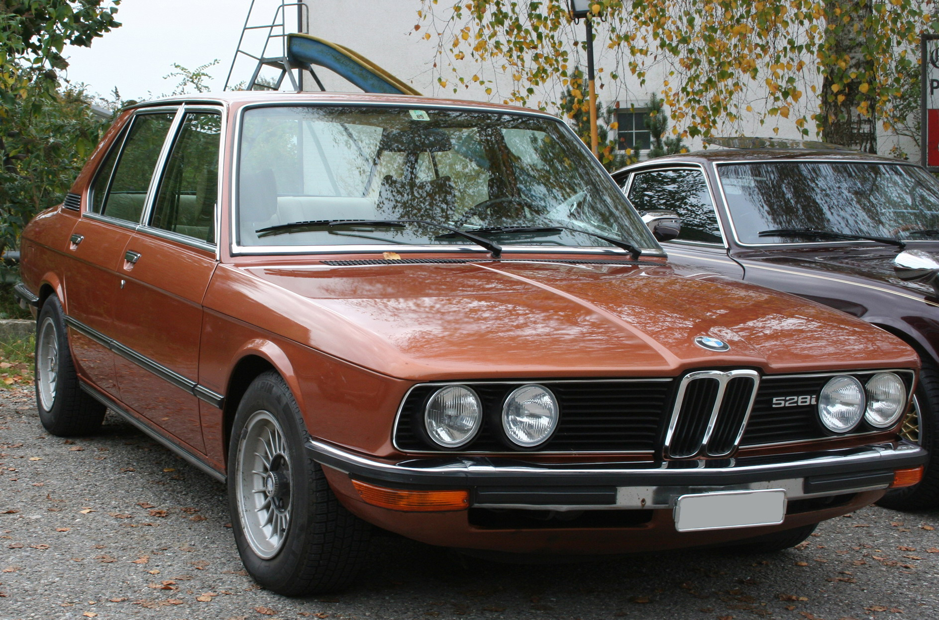 BMW E12